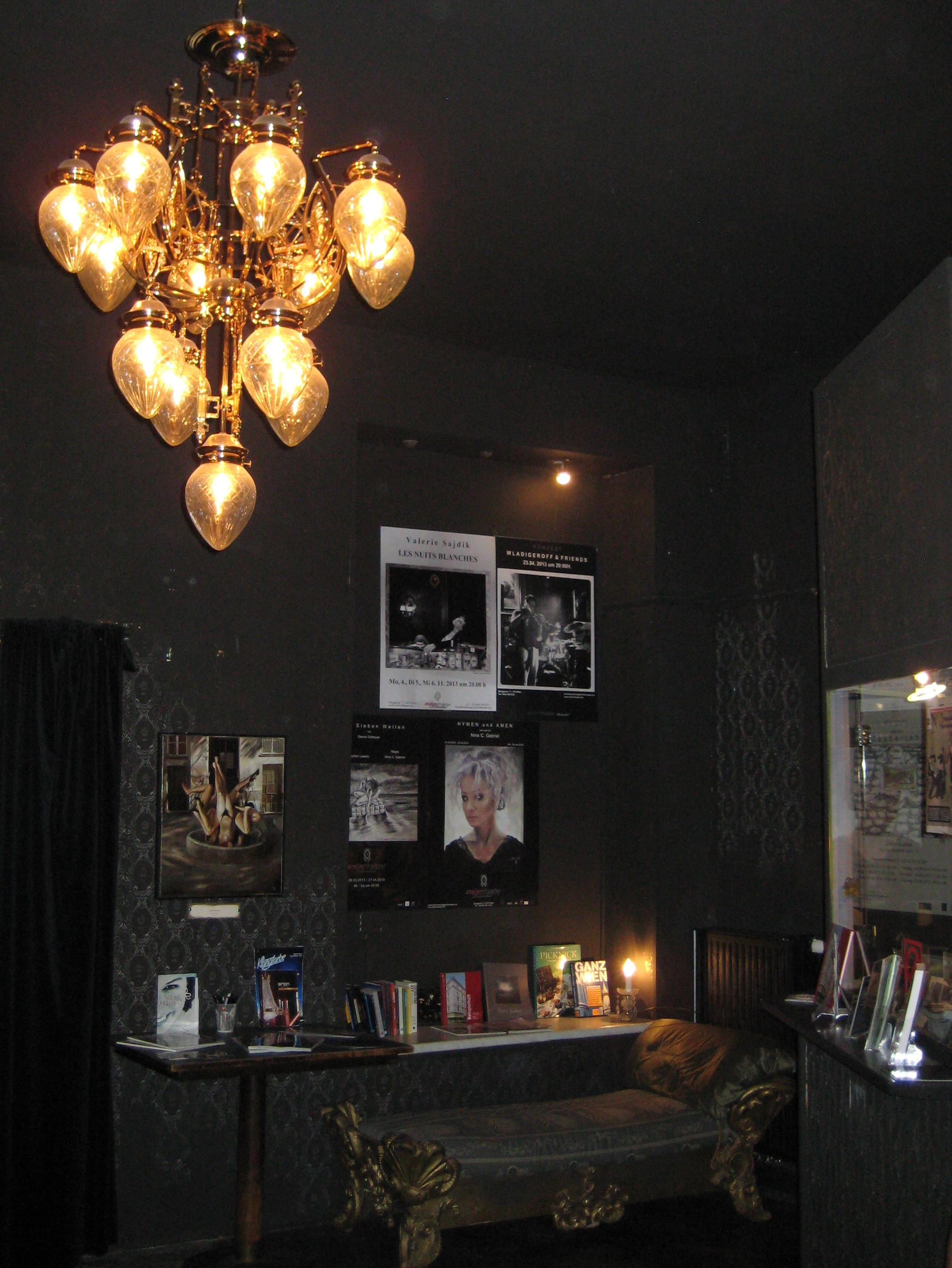 Ateliertheater (Vienna) inside, foyer